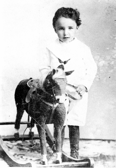 Wilhelm Reich (1897-1957), Austrian psychoanalyst, aged three